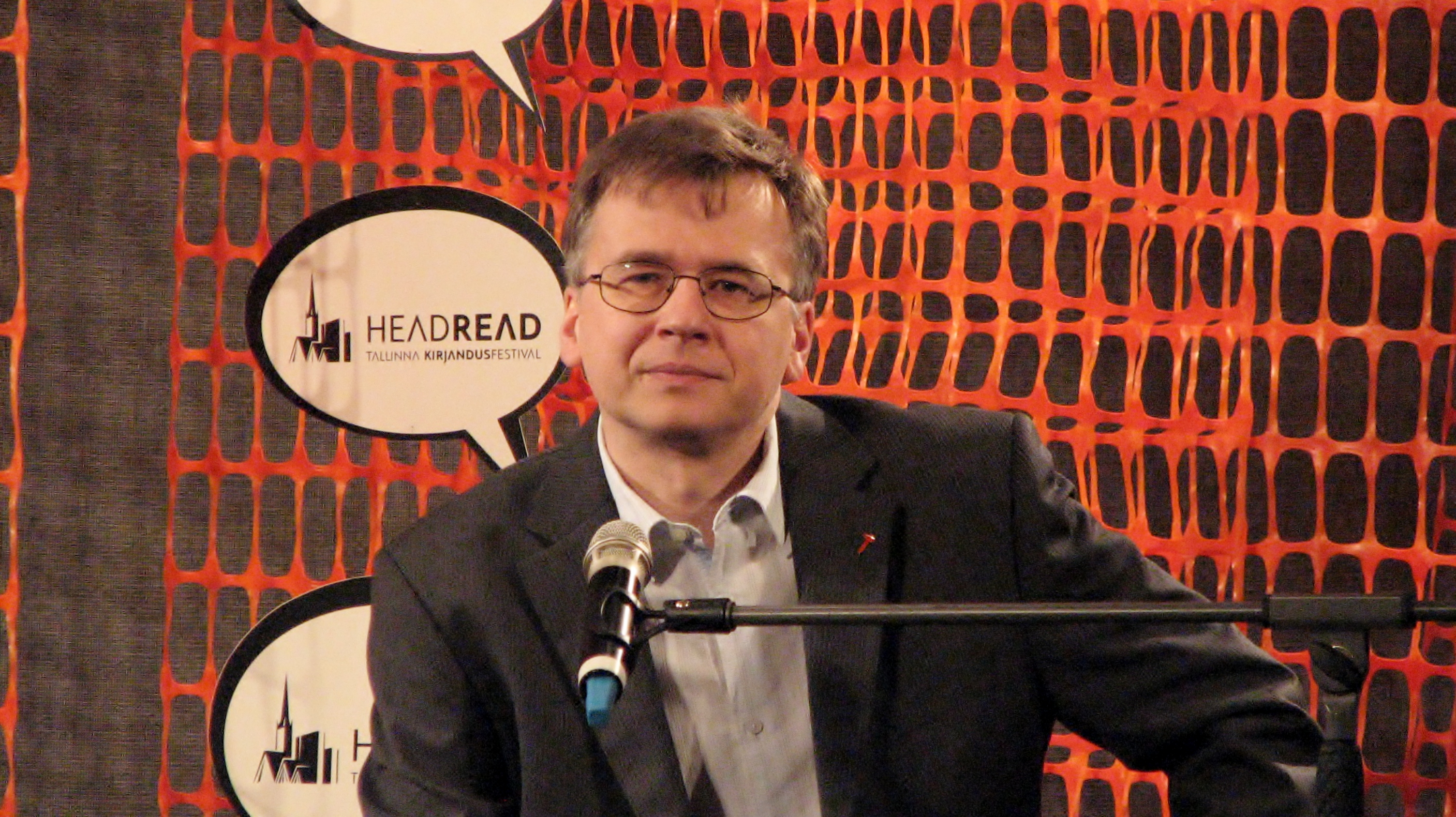 Märt Väljataga performing in HeadRead festival